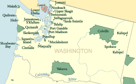 Map of Native American tribal territories in Washington — NW U.S.